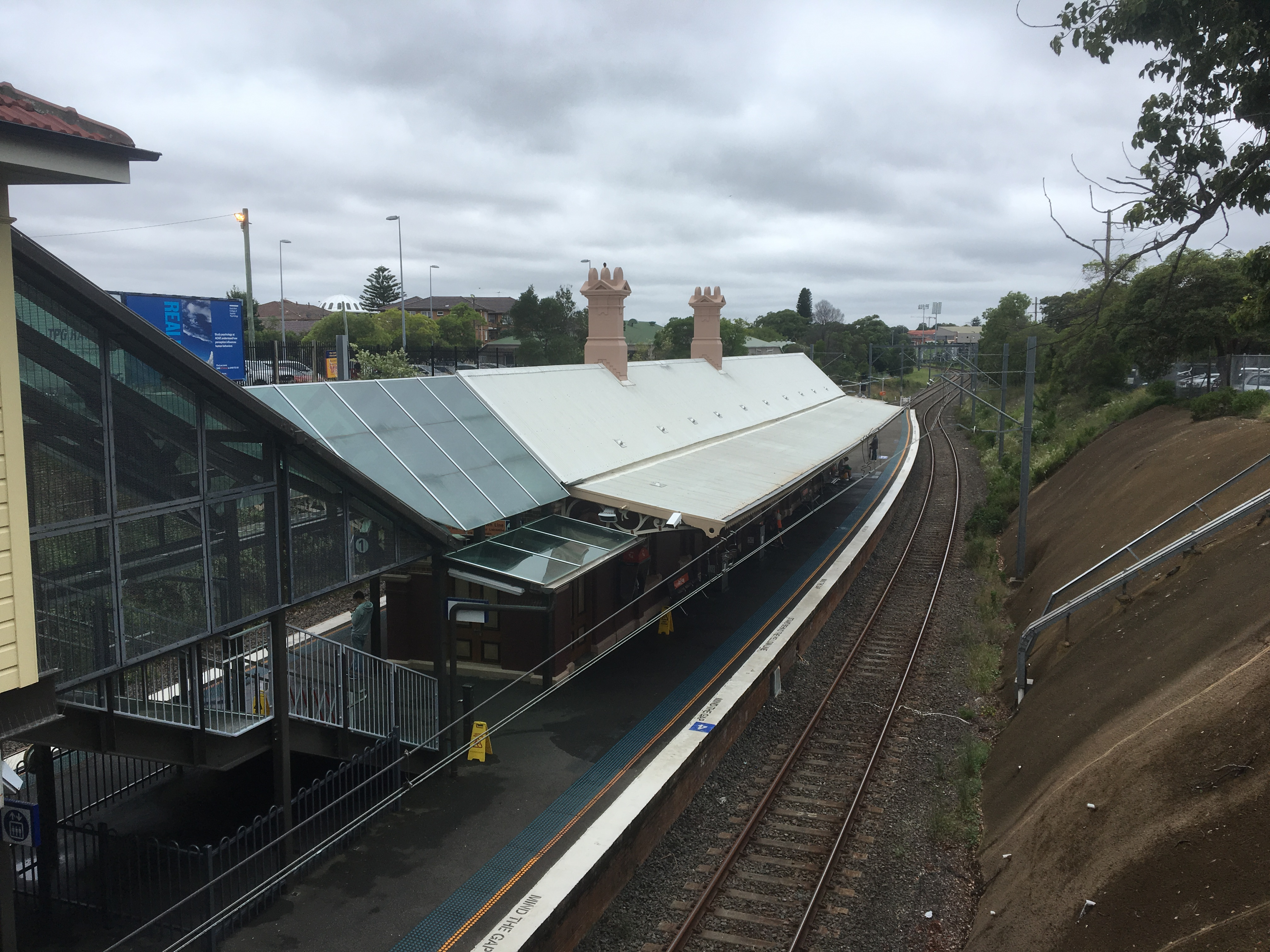 Belmore railway station in the suburbs of Sydney, Australia